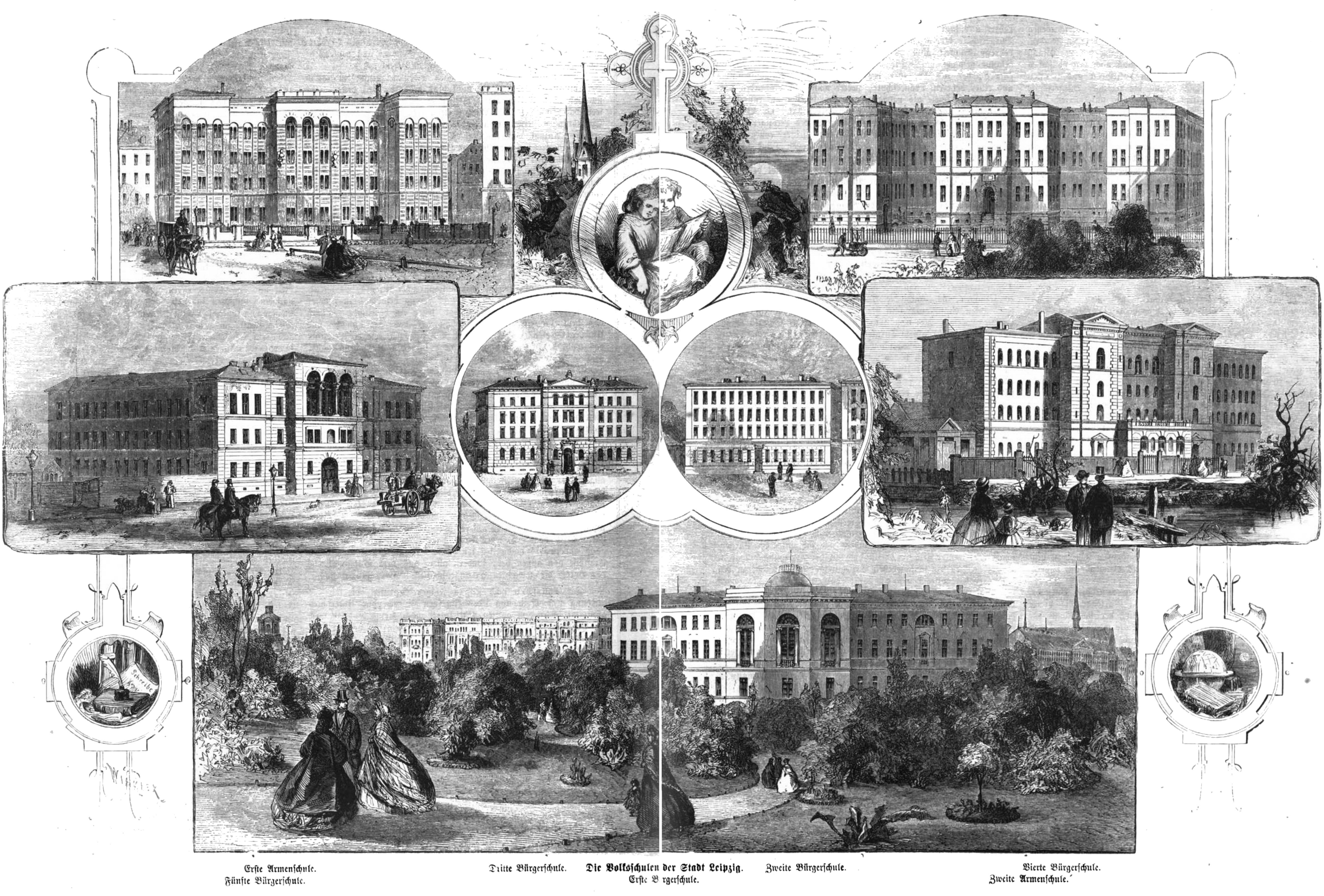 caption: "Die Volksschulen der Stadt Leipzig.Erste Armenschule. Vierte Bürgerschule.Fünfte Bürgerschule. Dritte Bürgerschule. Zweite Bürgerschule.Erste Bürgerschule."